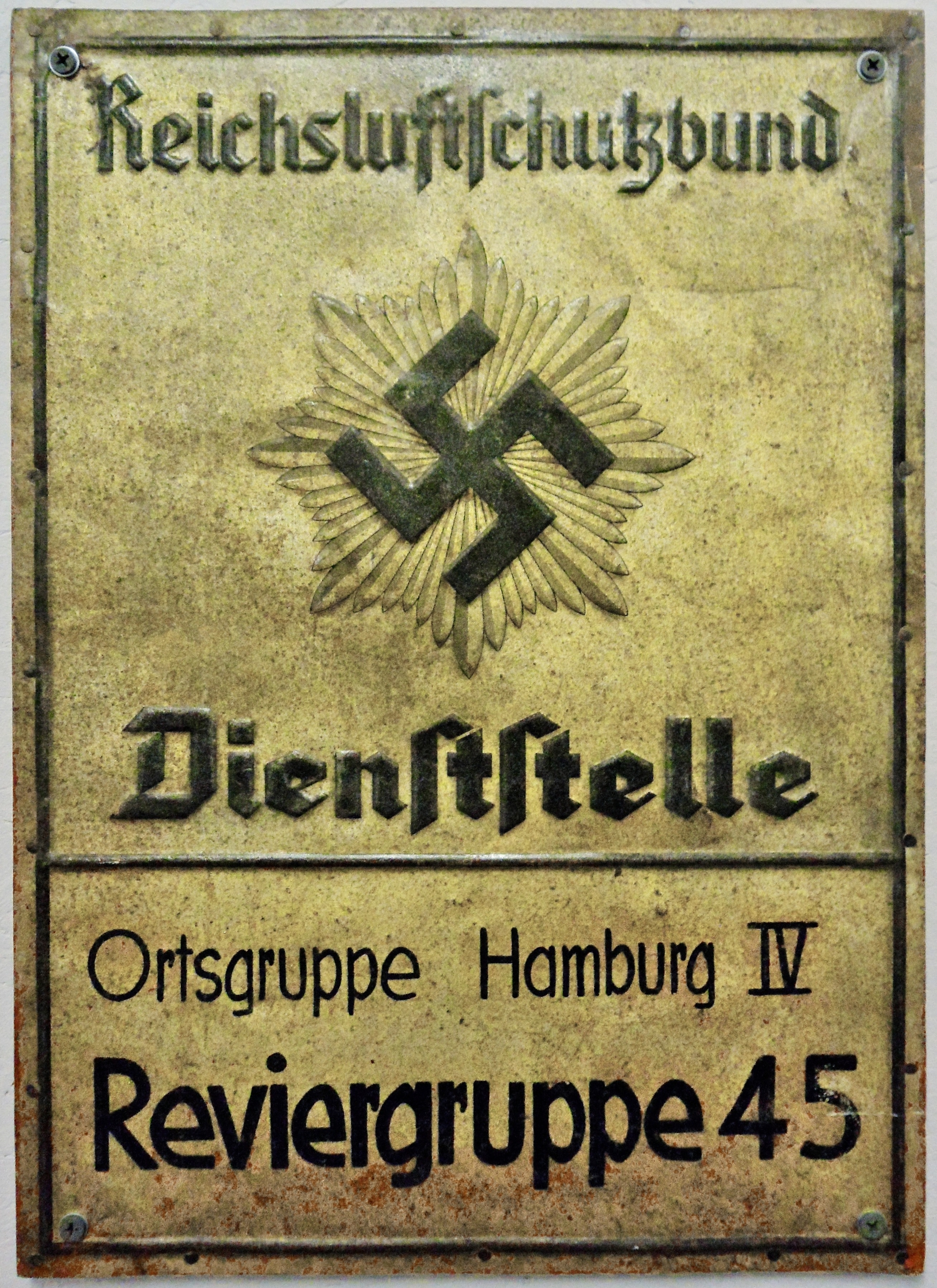 Official sign of the Reichsluftschutzbund Ortsgruppe Hamburg IV